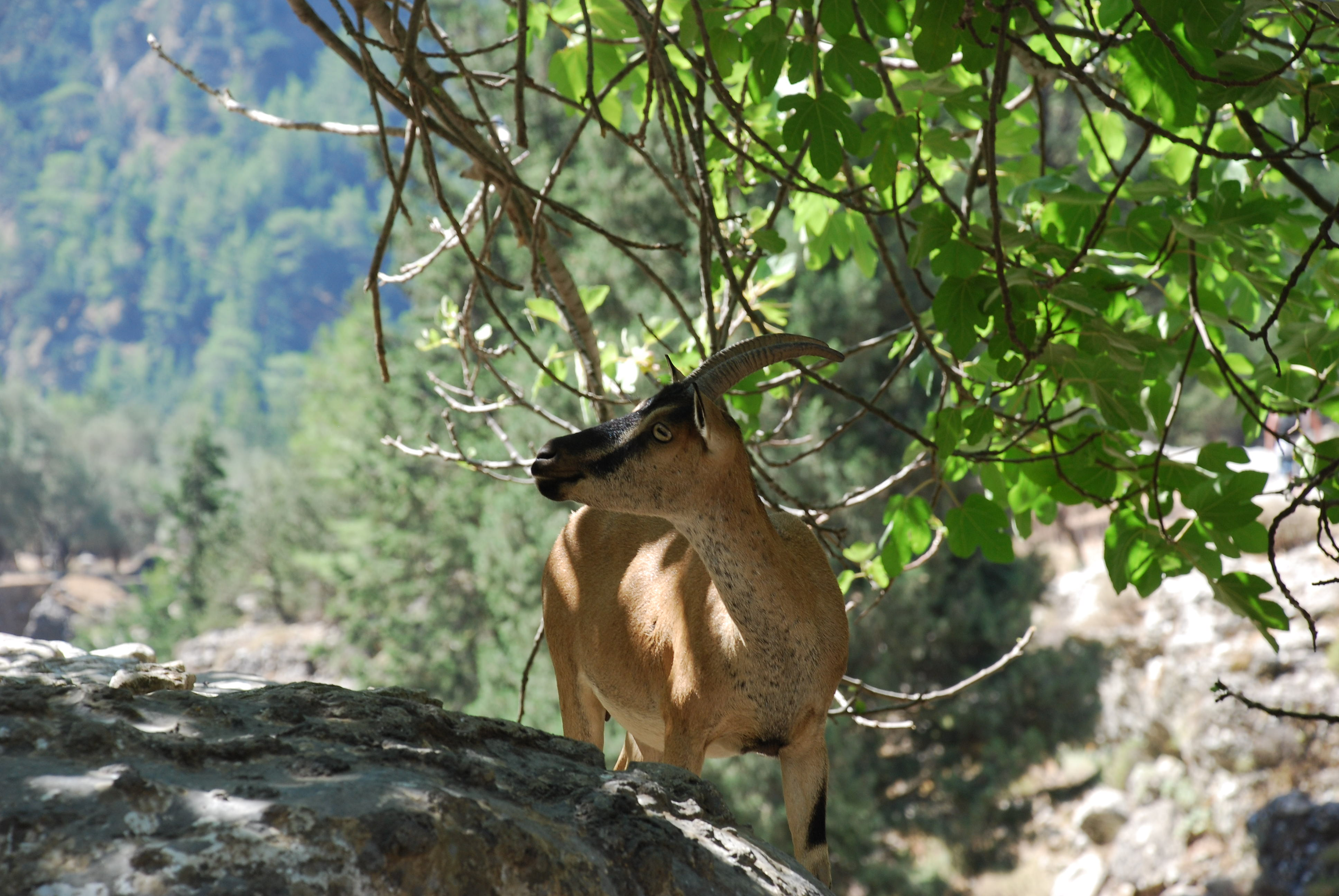 Kri-Kri (Samariá Gorge - Crete)